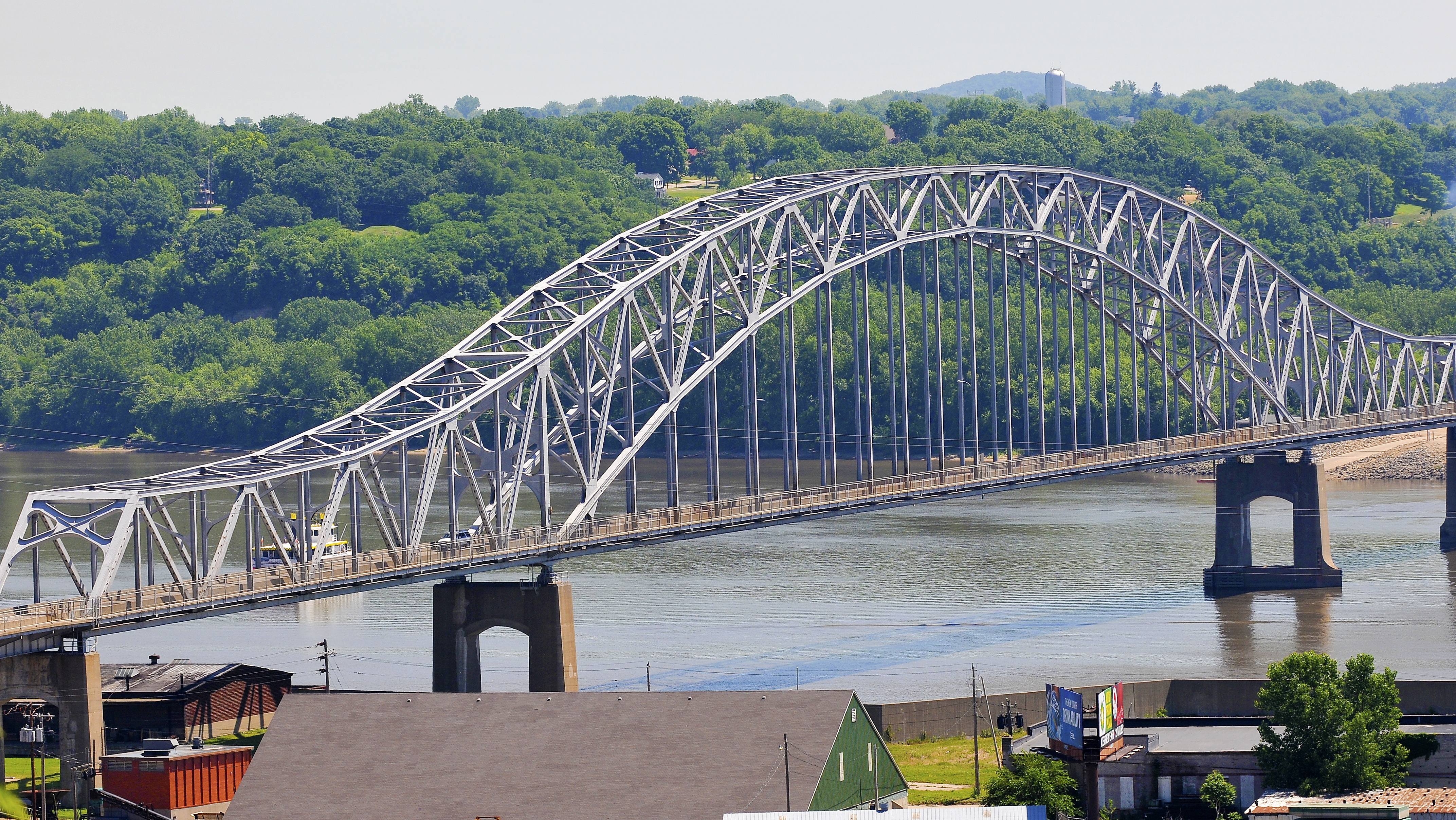 Julien Dubuque Bridge, Iowa, Illinois, United States